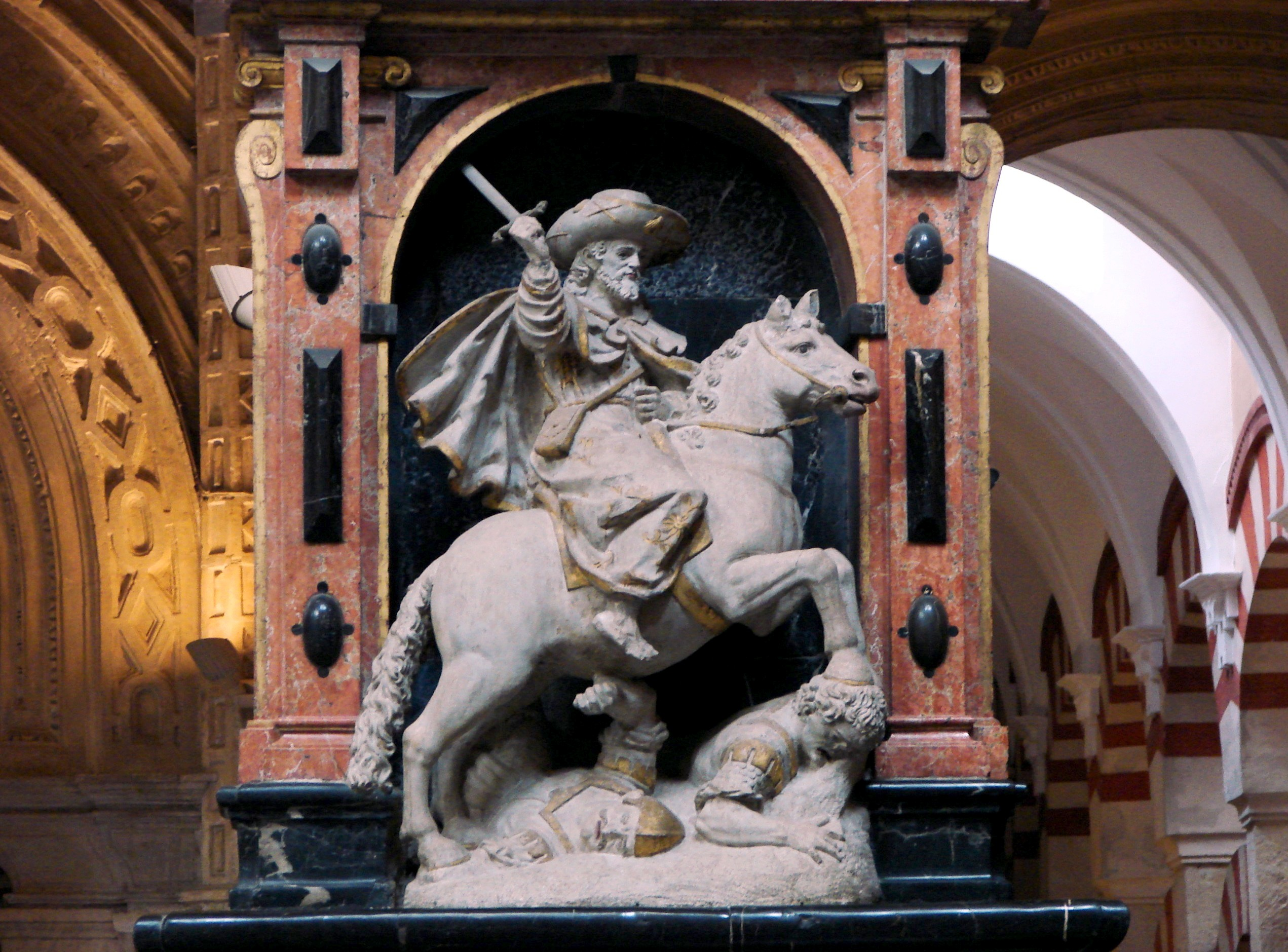 Statue of St. James, the Moor Slayer, Mezquita Cathedral, Cordoba, Spain